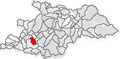 Map of Repedea Chioarului commune in Maramureş County Romania